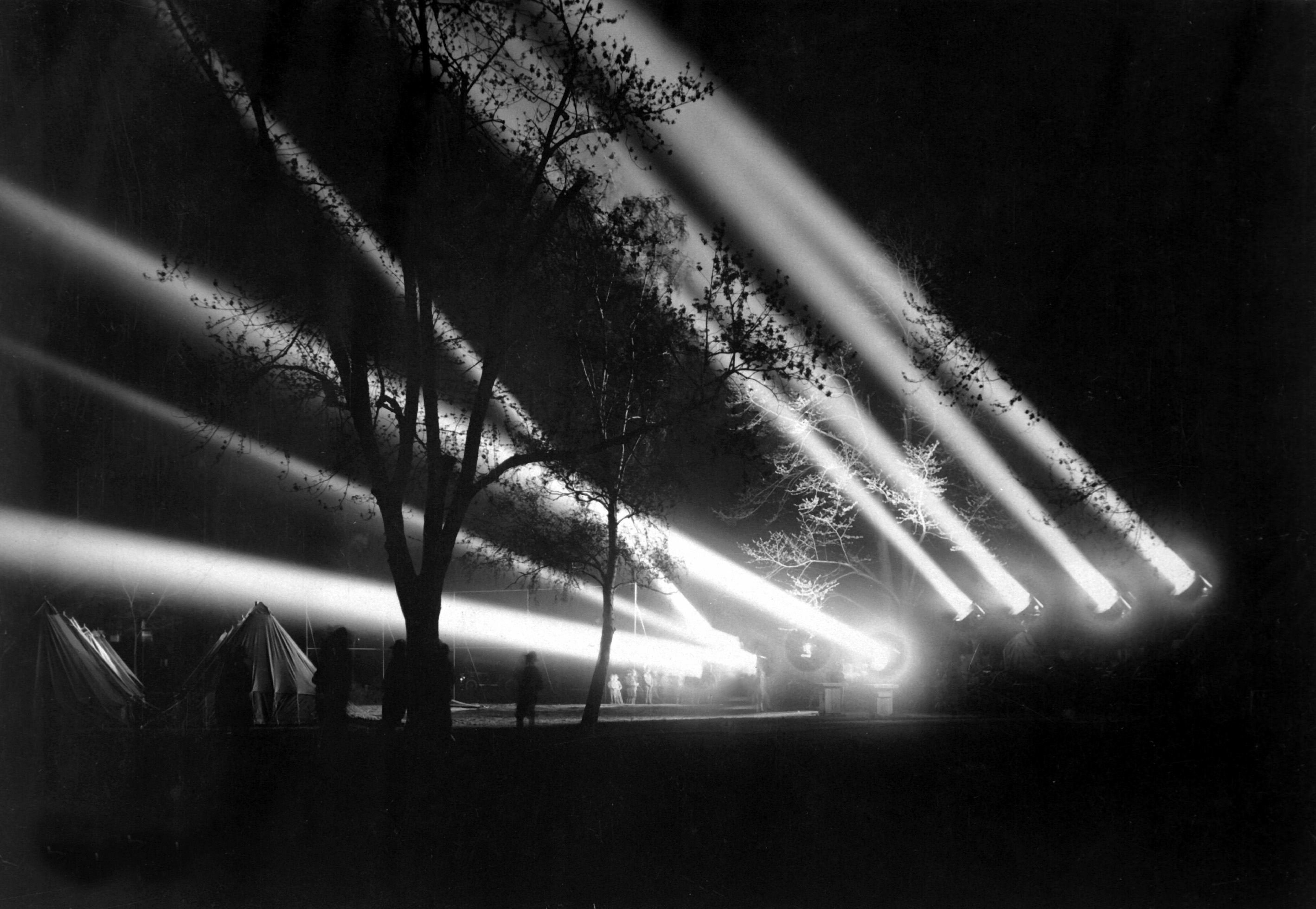 Mobile anti-aircraft searchlight, used by Engineer Corps. Night view of illumination from 24" searchlights. Washington Barracks, D.C. ID # HD-SN-99-02235.